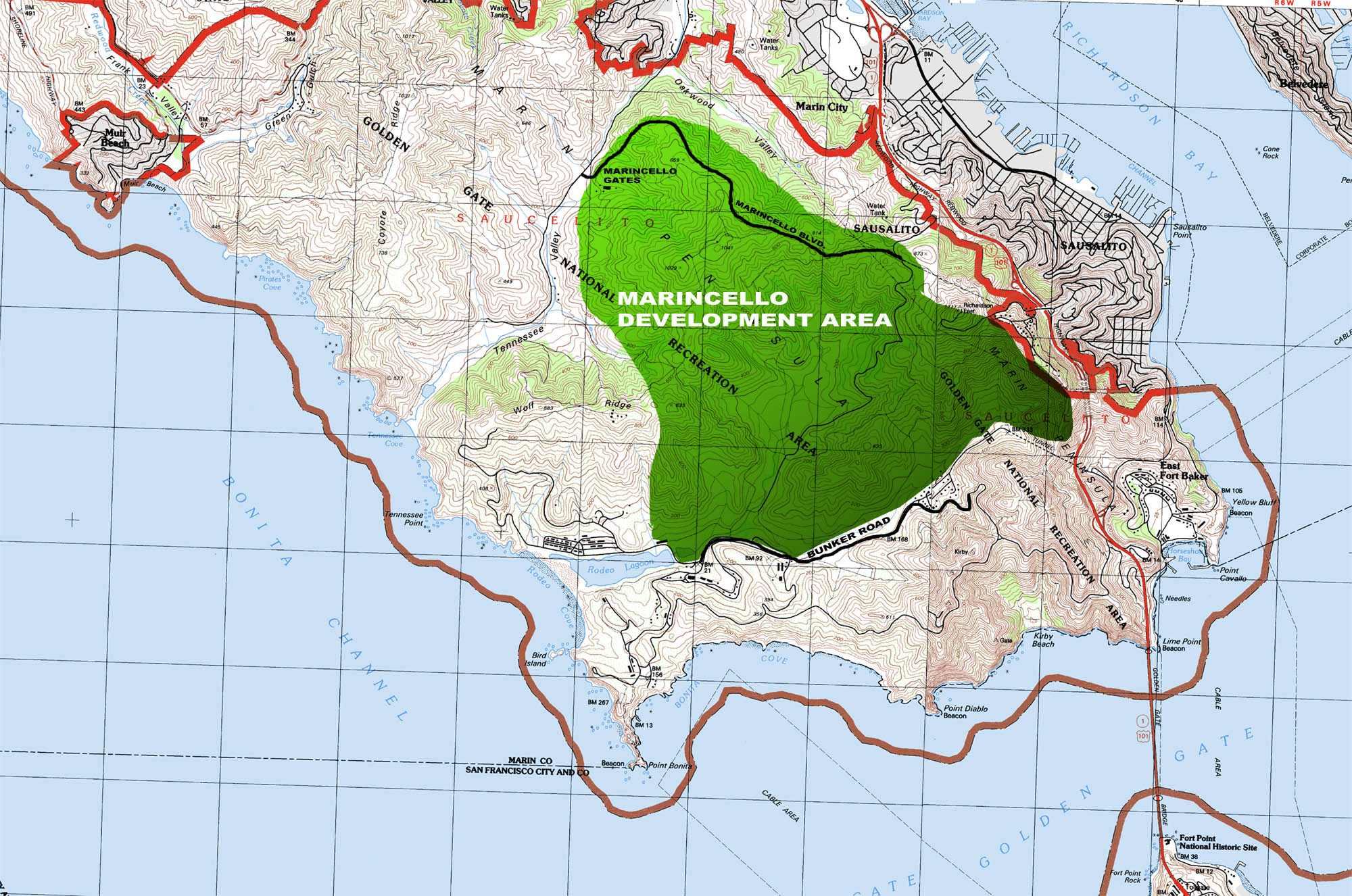 The green area represents the 2,000 acres of land that was to be developed as the Marincello city. Right next to where the word AREA is written is one of the highest points of the Marin Headlands- this is where the landmark hotel would have been built. Marincello Blvd. is now the Marincello Trail. This was created on a USGS map which is public domain, and was acquired on this website